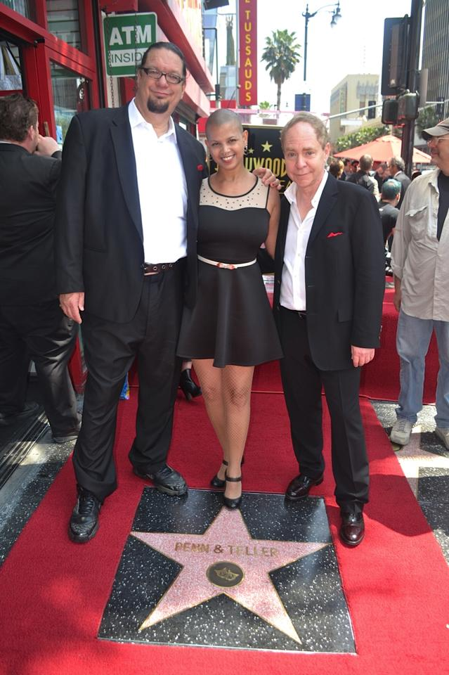 Penn & Teller with Heather Henderson